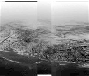 This composite was produced from images returned yesterday, January 14, 2005, by the European Space Agency's Huygens probe during its successful descent to land on Titan. It shows the boundary between the lighter-colored uplifted terrain, marked with what appear to be drainage channels, and darker lower areas. These images were taken from an altitude of about 8 kilometers (about 5 miles) and a resolution of about 20 meters (about 65 feet) per pixel. The images were taken by the Descent Imager/Spectral Radiometer, one of two NASA instruments on the probe.